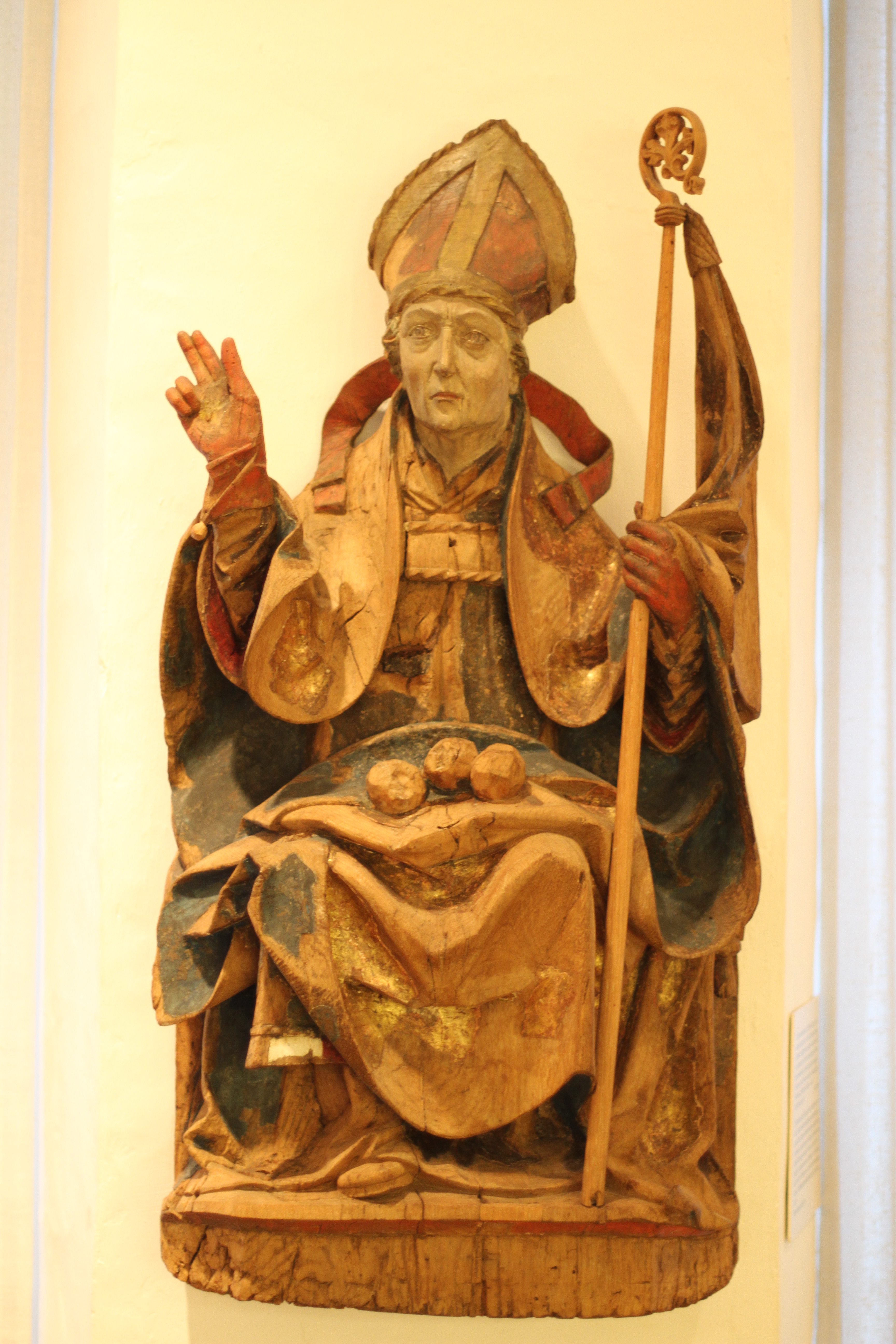 Saint Nicolaus, relief from Nørre Broby Church on Funen, now at the National Museum of Denmark.